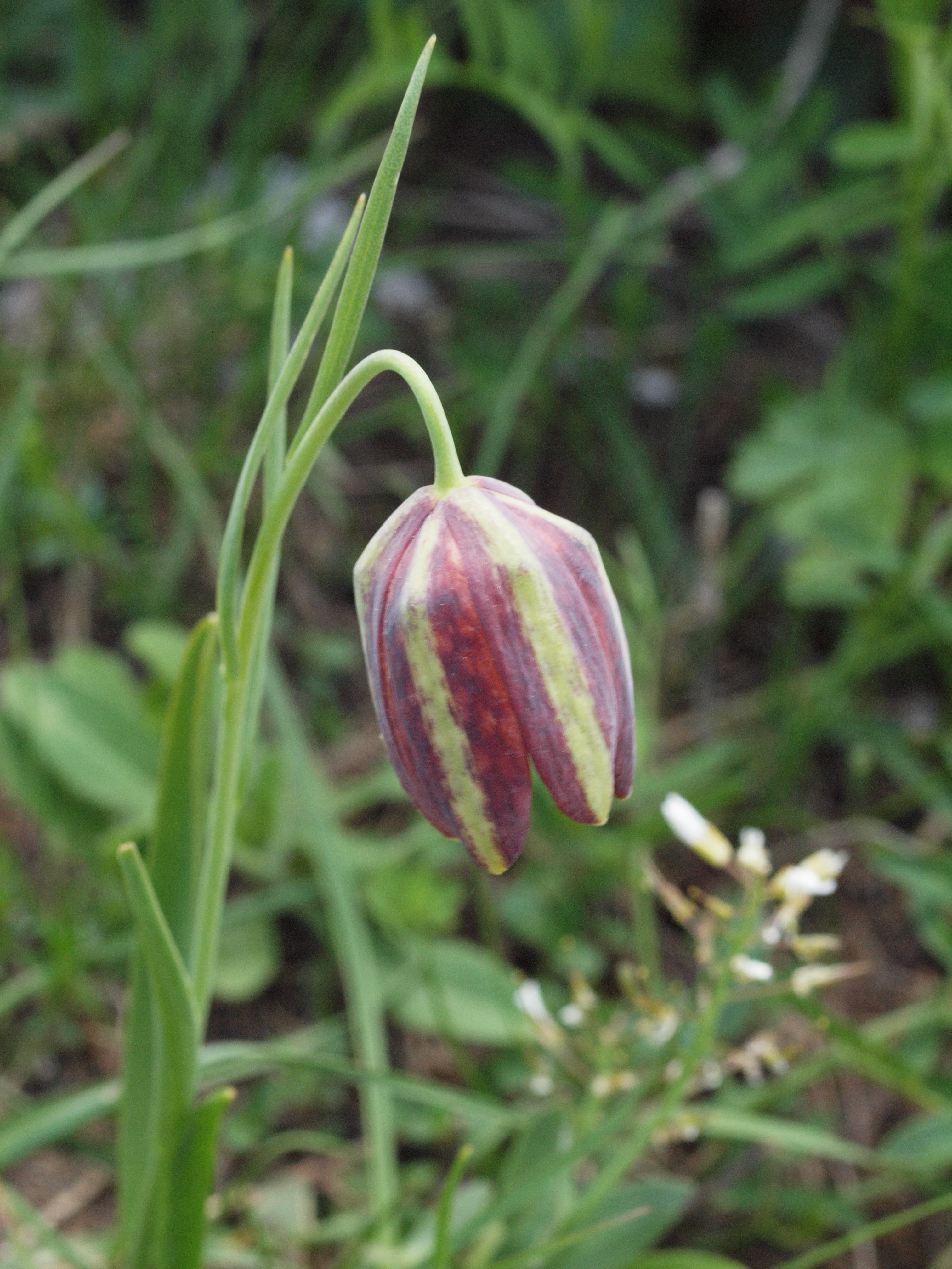 Fritillaria gracilis